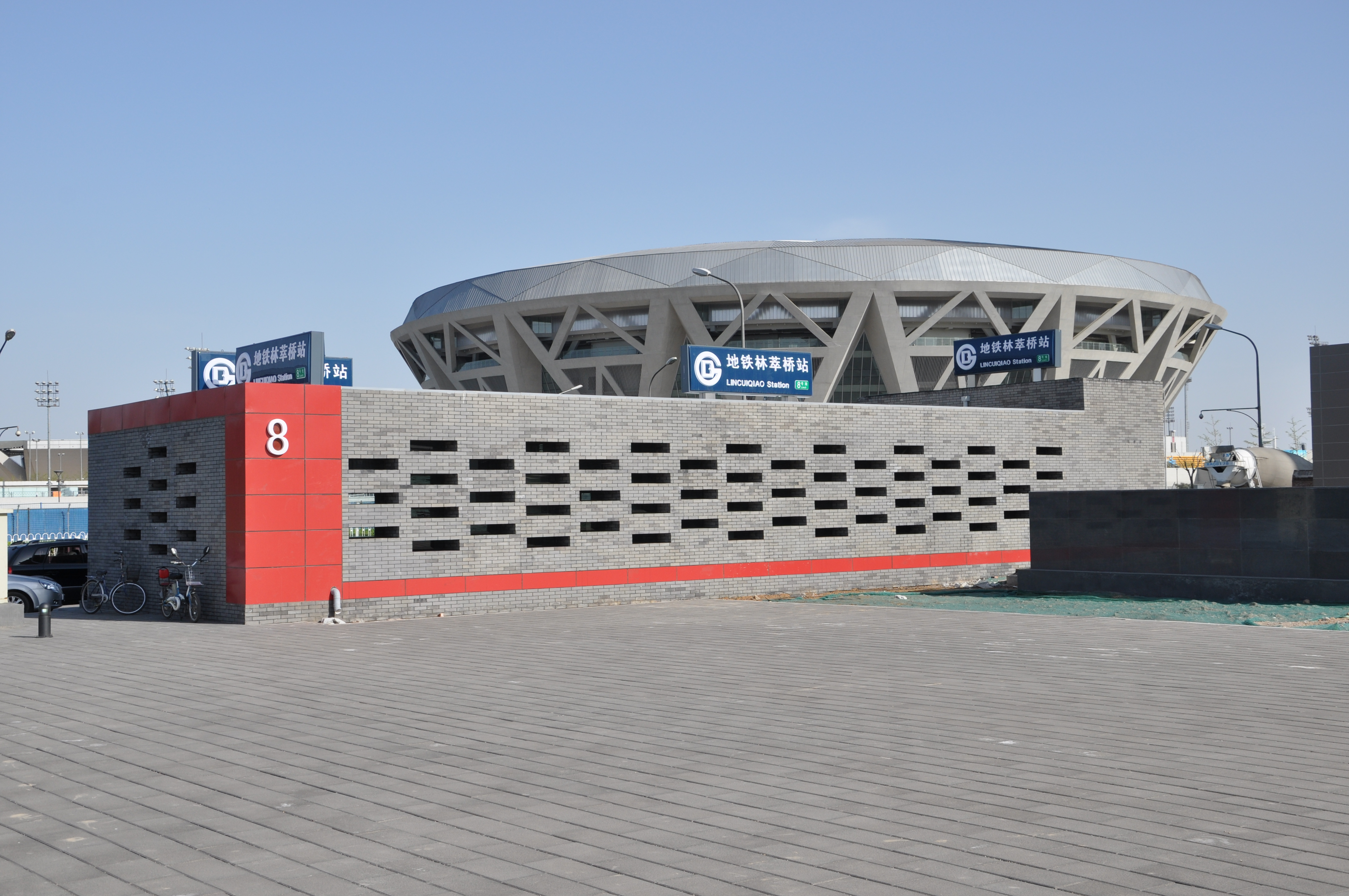 The Exit of Lincuiqiao station, Line 8, Beijing Subway. National Tennis Court is behind the exit.